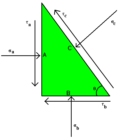 Shows the stress distribution of the triangle, used to derive the equations behind Mohr's Circle